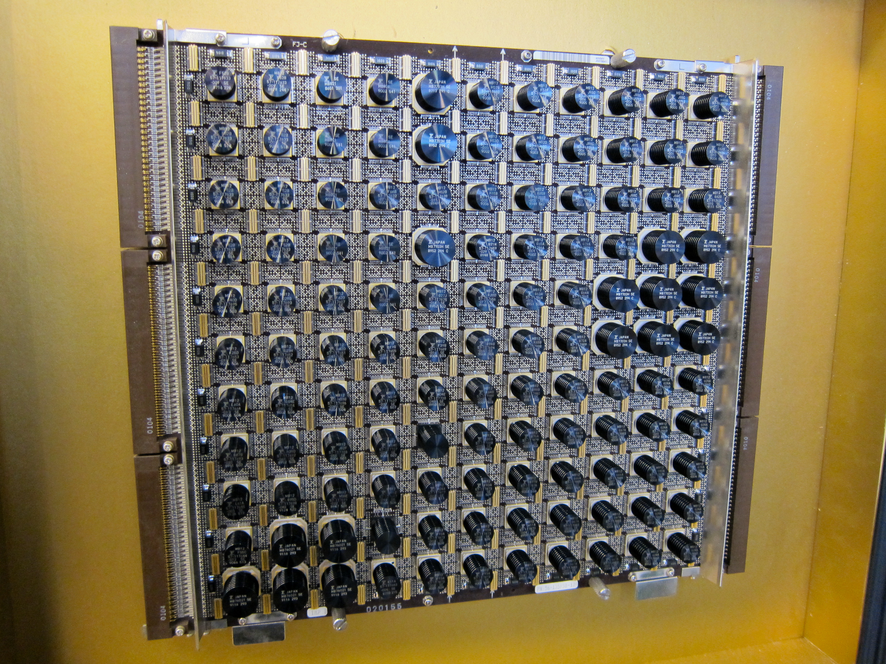 Amdahl 580's Multi-Chip Carrier board (11x11-chip MMC) - (Amdahl J0276641, IMP 8, PN 56-135958-124) Amdahl 580's Multi-Chip Carrier (MCC) board with 11x11 chips: Amdahl J0276641 / IMP 8 / PN 56-135958-124 (see discussion on comment) Fujitsu MB7703H 4K-bit ECL Bipolar RAM (4~5ns access, 3.6~6W) References Amdahl 580 Technical Introduction. Amdahl Corp. (1980). Fujitsu - Bipolar Memories - MB7700H Series ECL Bipolar RAM 9-92 – 9-100. Fujitsu.